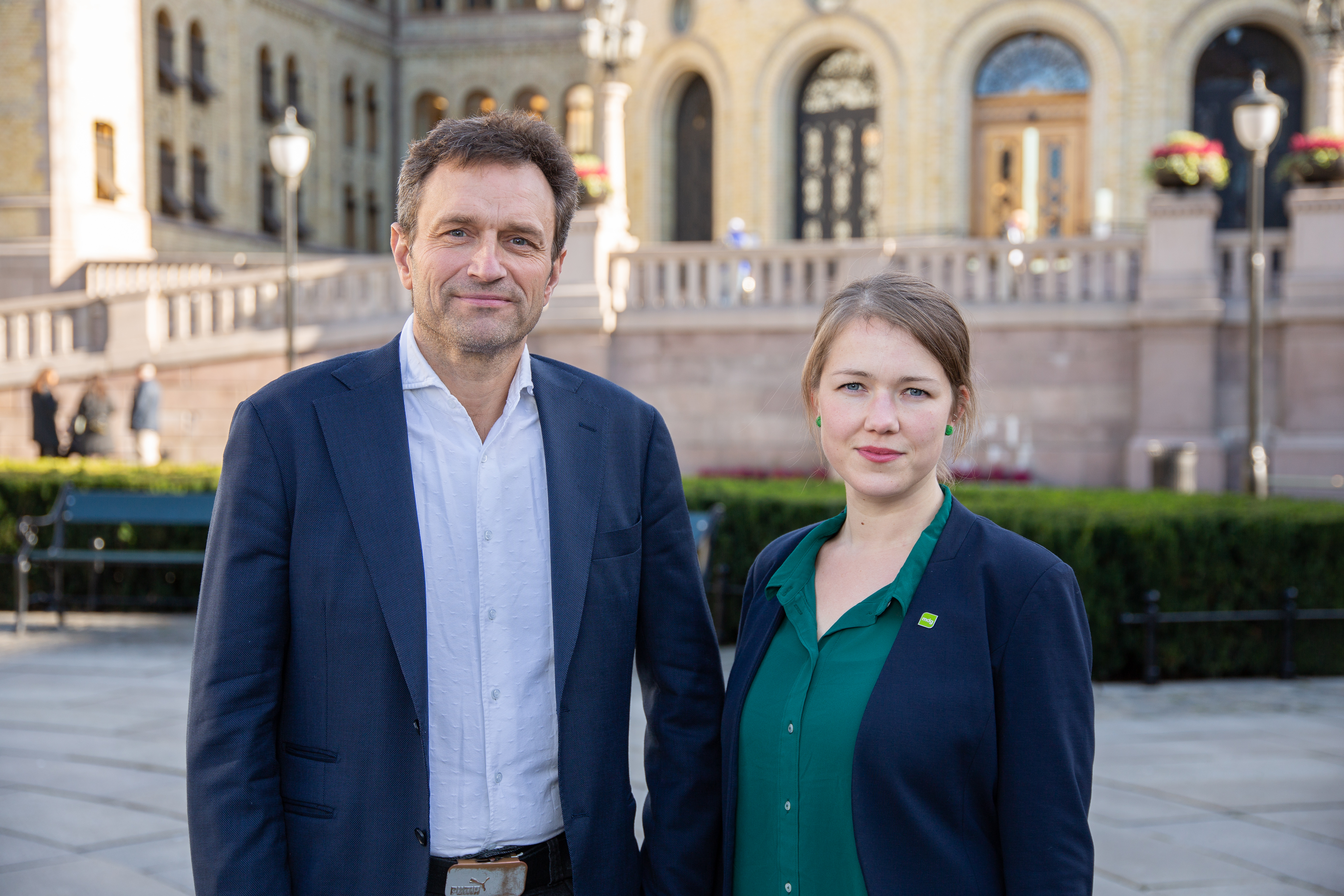 Arild Hermstad (left) and Une Aina Bastholm (right) in October 2018